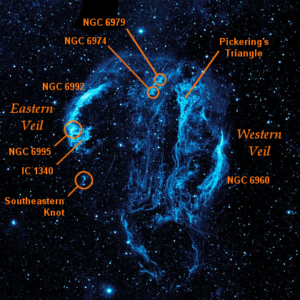 Recent NASA photograph of the Cygnus Loop in ultraviolet light, with labels added to point out well known features: The Western Veil (NGC 6960) The Eastern Veil (NGC 6992, NGC 6995, IC 1340) NGC 6974 and NGC 6979 along the northern edge Pickering's Triangle The Southestern Knot, a prominent X-ray feature